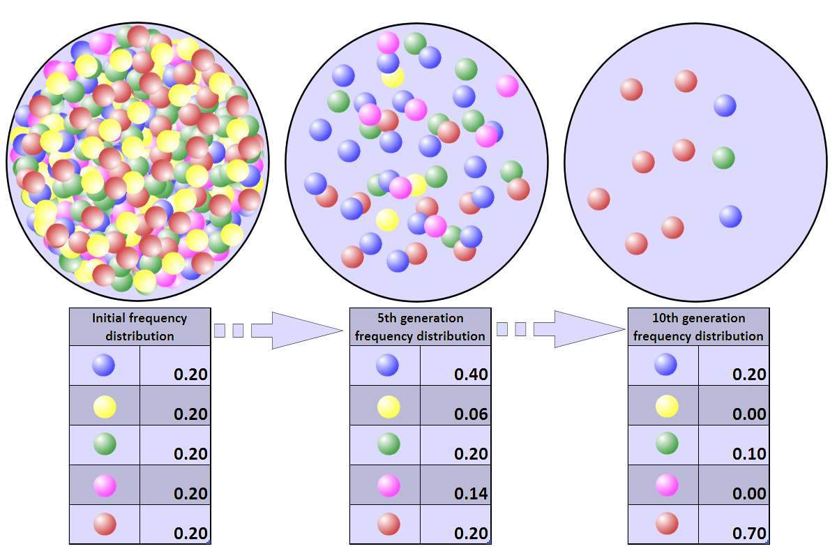 Representation of a population bottleneck. Colored balls represent the alleles present in the population. The population numbers 500 initially, but within five years the size of the population has dwindled to 50, and within ten years to just ten. As a consequence of the population bottleneck, there has been a random drift in the allele frequency distribution, and a loss of two of the original five alleles.